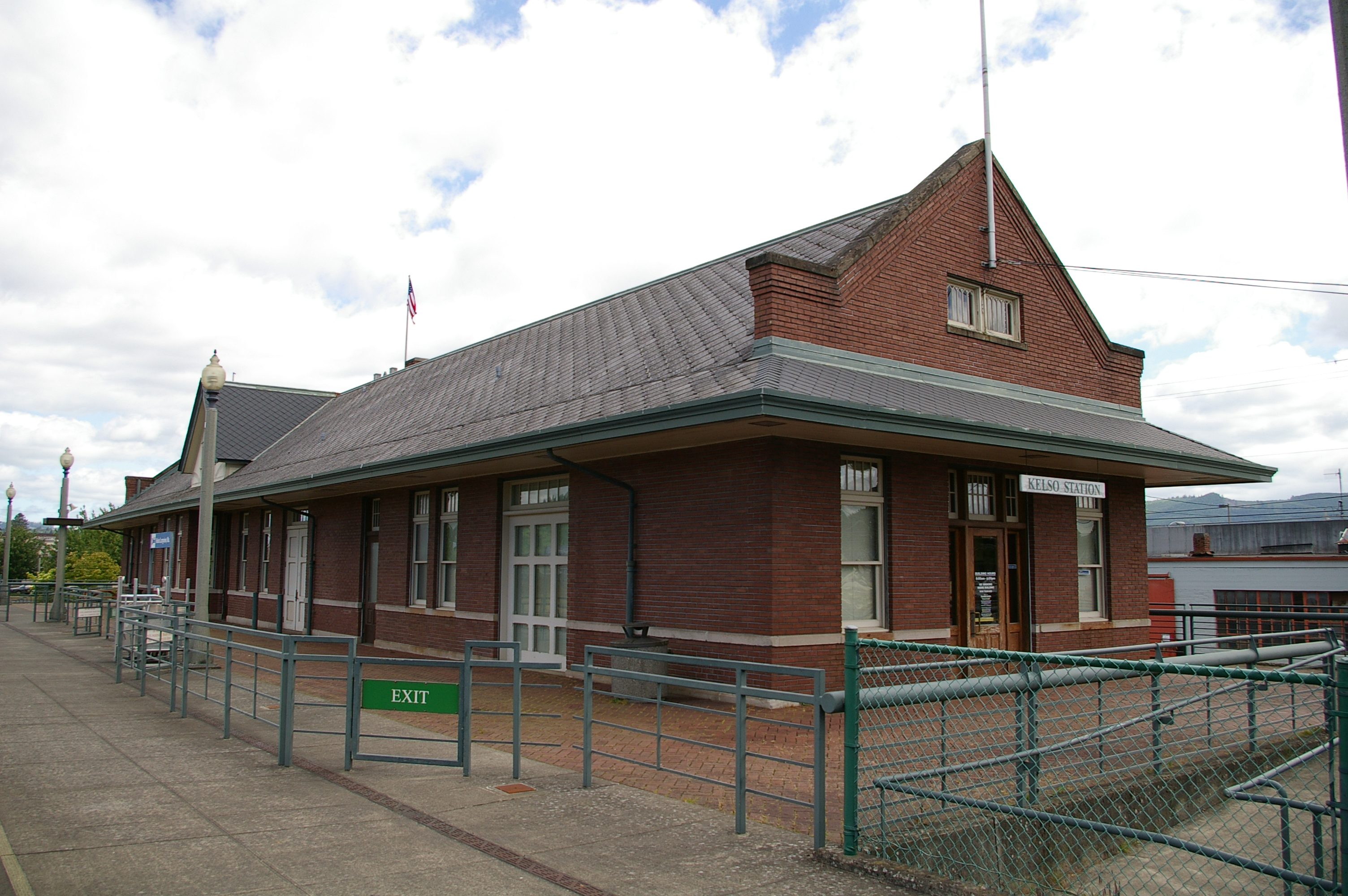 As seen from the train platform